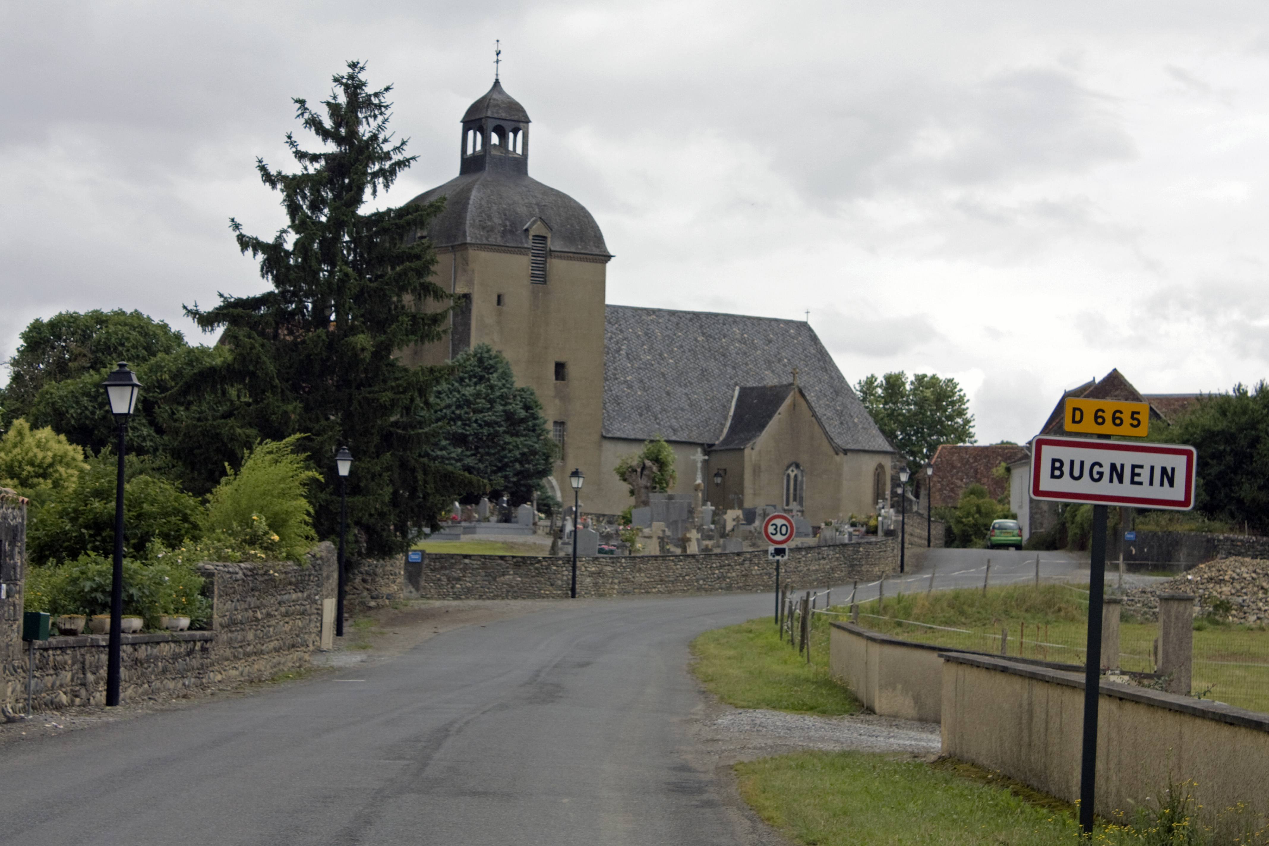 The entrance to the village, the church and the parish enclosure.